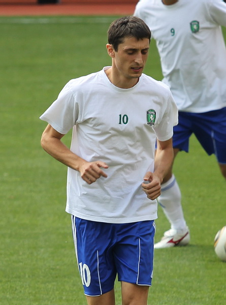 Goran Maznov